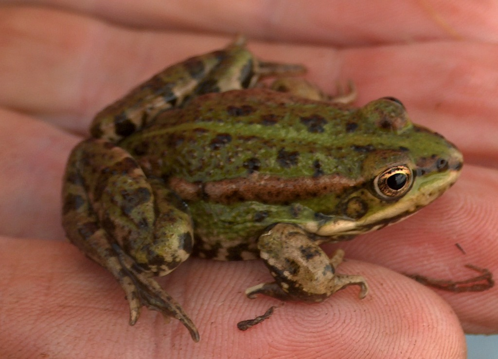 Rana ridibunda aka Pelohhylax ridibunda from the Beemsterringvaart, The Netherlands (R. ridibunda is the only green frog species here)